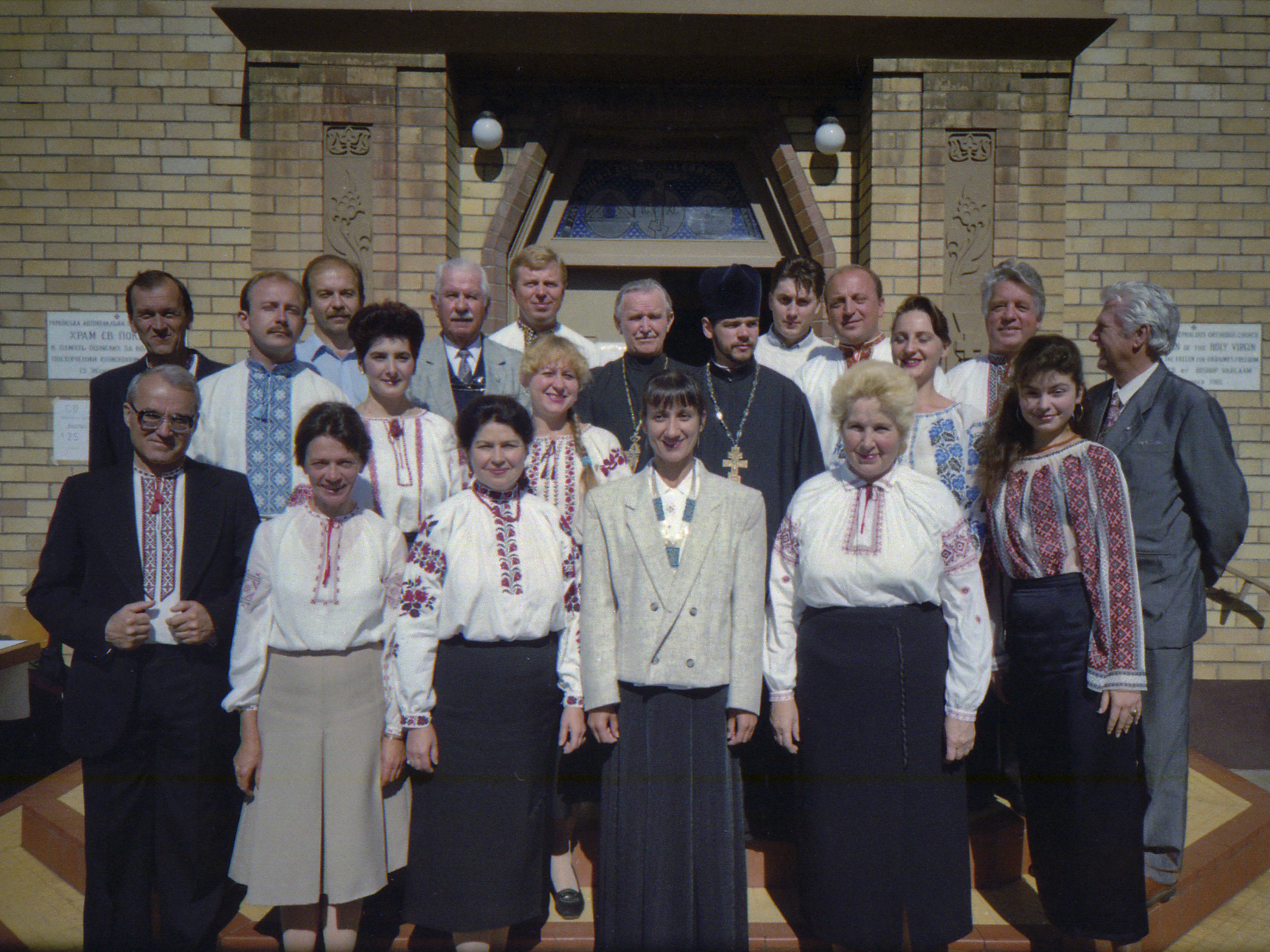 The Vydubychi Church Choir (Хор Видубичі) from Ukraine visits the Intercession of the Holy Virgin Ukrainian Orthodox Church in Strathfield West, 11 August 1996. The choir came to Australia to perform at the IV International Choral Symposium held at the Sydney Opera House, Australia.